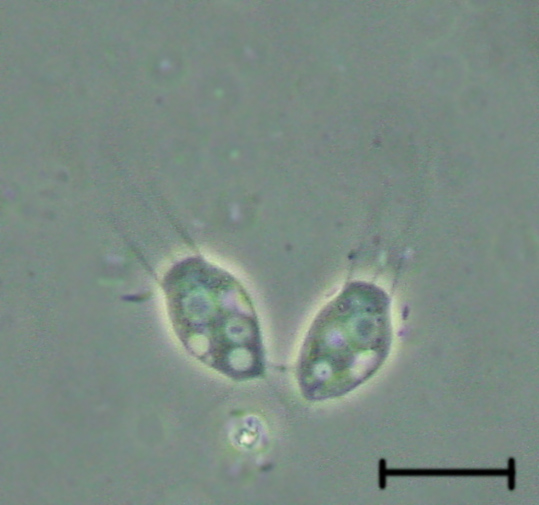 Codosiga sp. isolated from Moroccan desert soil (dried up lake) Codosiga sp. colony